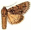 PLATE CXXV.